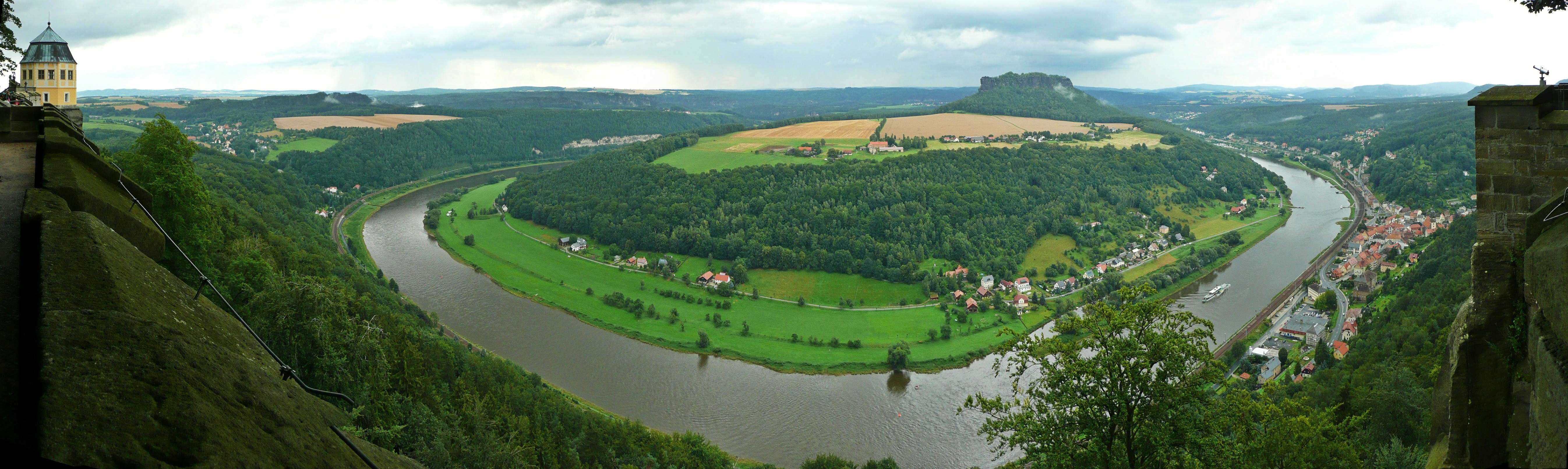 outlook from Königstein Fortress over the Elbe to the Lilienstein (415 metres).